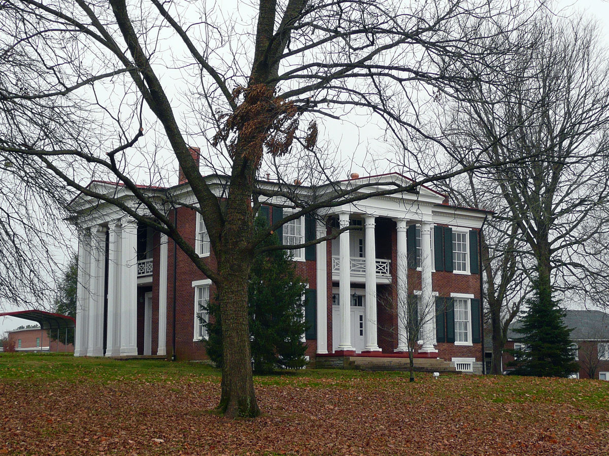 Photograph of Cheairs Mansion - Built by Martin Cheairs in 1854. Home where Confederate General Earl Van Dorn was murdered by the jealous husband of Jessie McKissack Peters. Located on Main Street, Spring Hill, TN (Tennessee Childrens' Home Property)